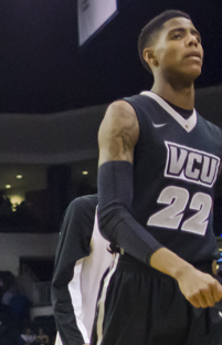 VCU vs. ODU basketball